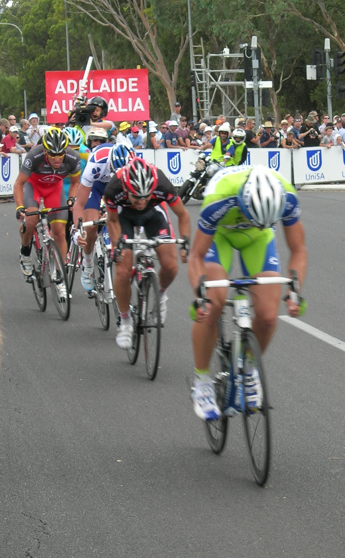 (From back to front) Óscar Pereiro (mostly obscured), Lance Armstrong, Mickaël Cherel, Mathieu Perget and Peter Sagan in a breakaway during the Cancer Council Classic before the 2010 Tour Down Under.